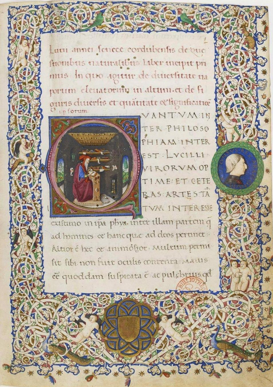 First page of the manuscript De questionibus Naturalibus, made for the Catalan-Aragonese crown.